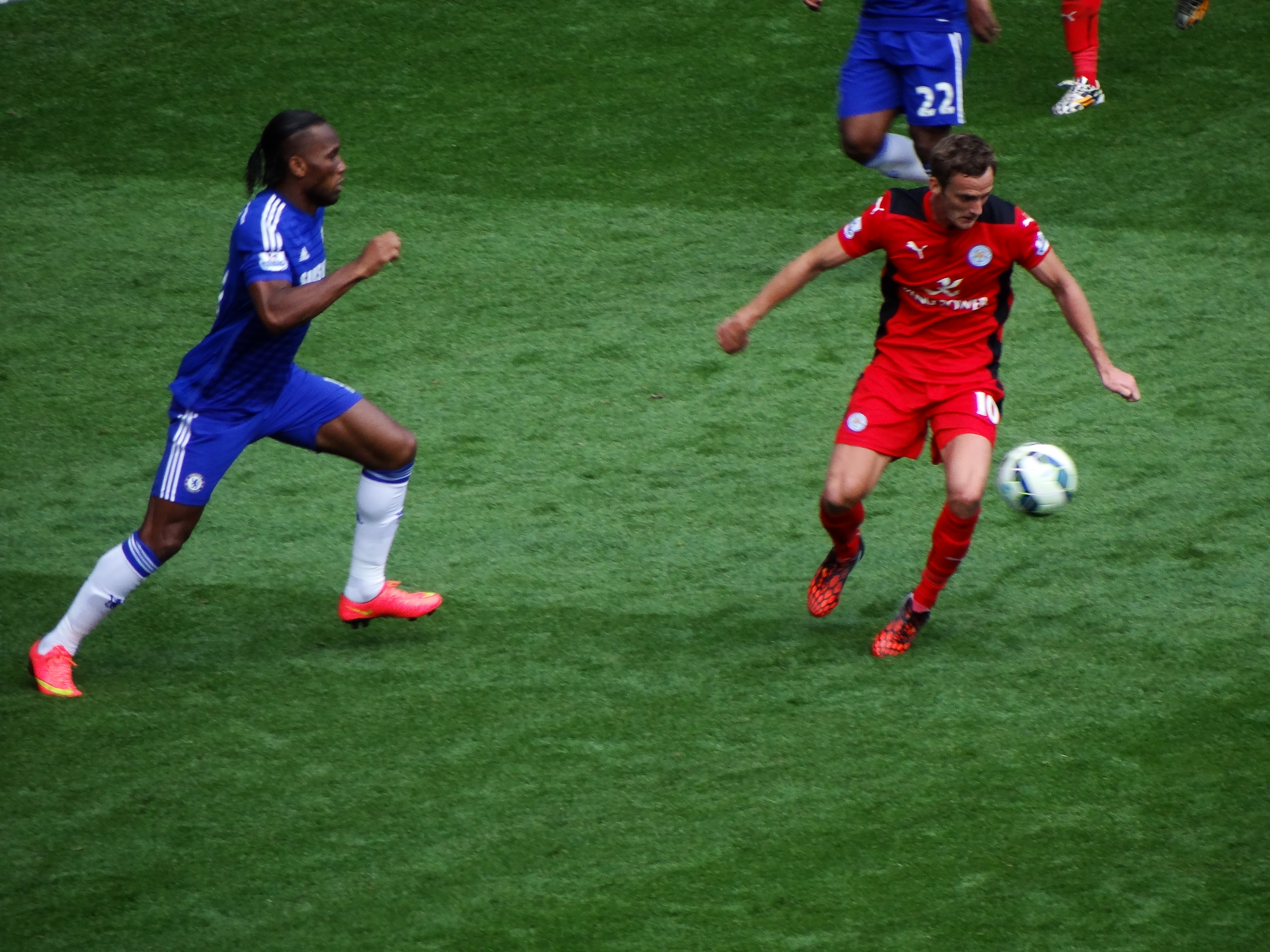 Andy King of Leicester City